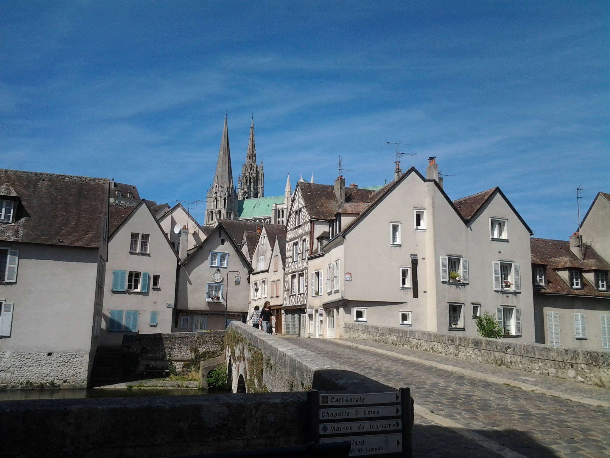 View of Chartres